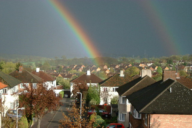 Double Rainbow over Potters Bar. The street is View Road in Potters Bar, the picture was taken from offices overlooking it.